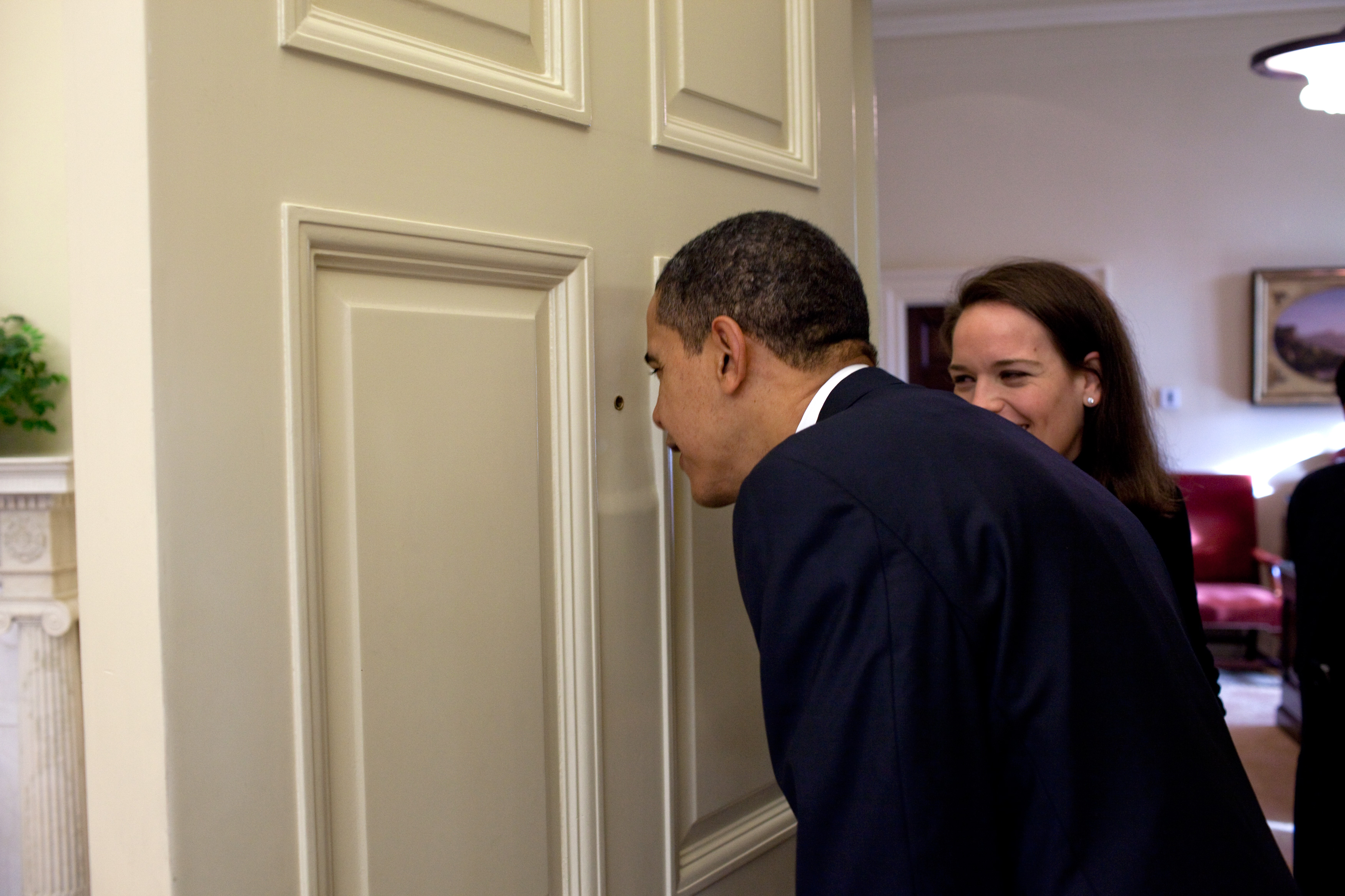 President Barack Obama looks through the Oval Office door peephole as his personal secretary Katie Johnson watches 3/12/09.